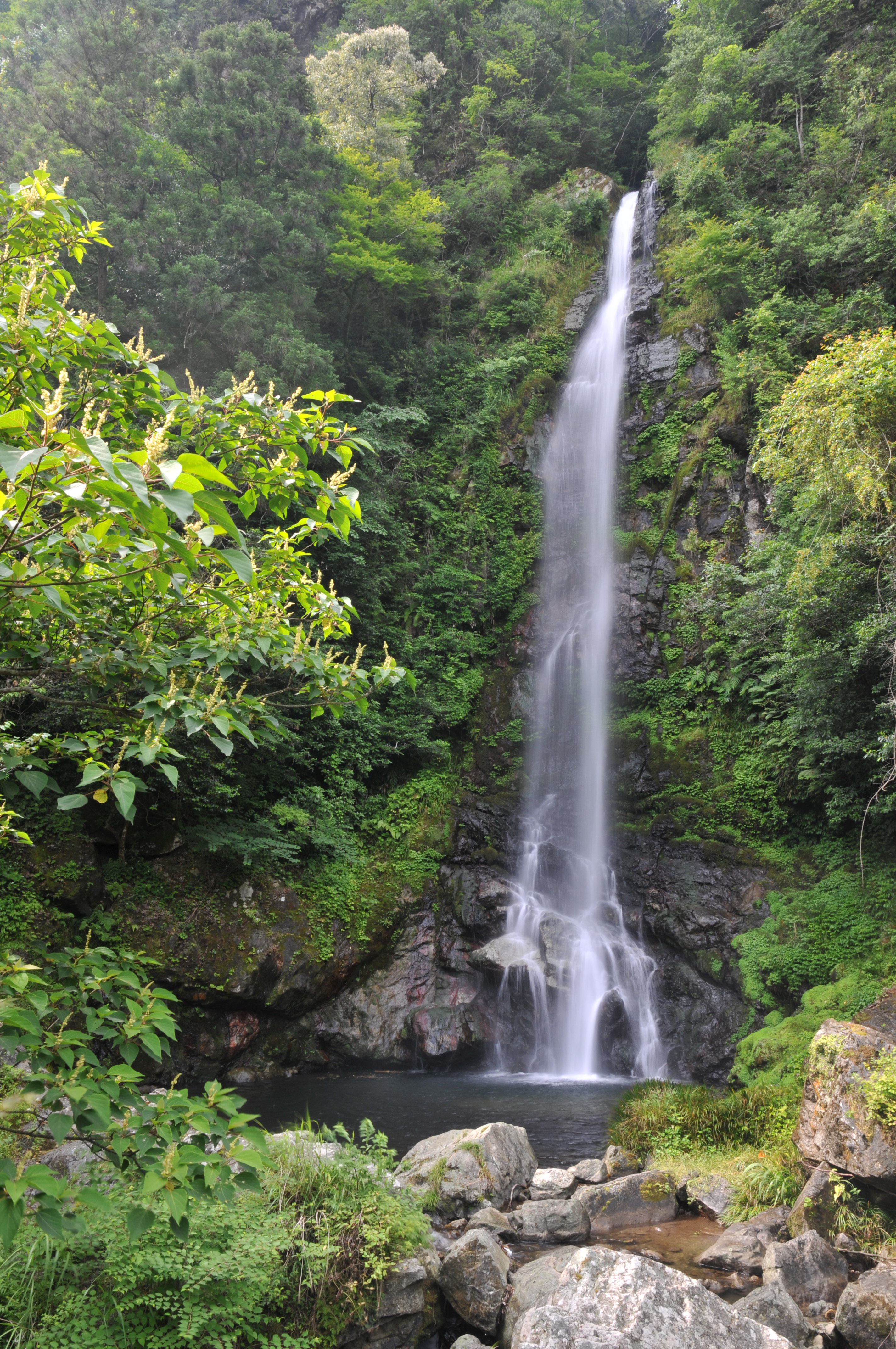 Ōtaru waterfall